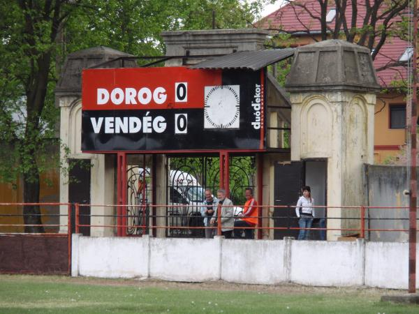 This table and timer worked at more than 40 years in the stadium. It was removed in 2014